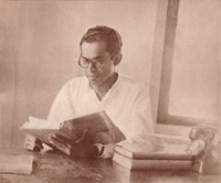 It is the name of a Society based in Sri Lanka